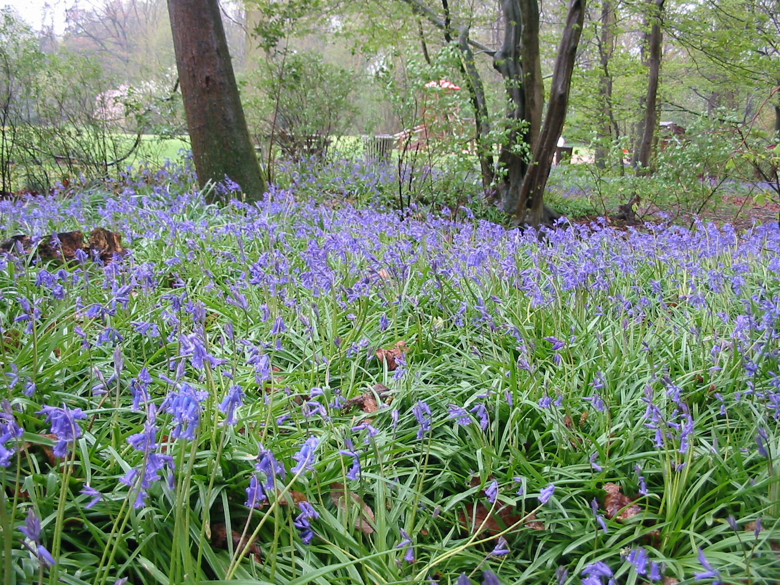 Bulskampveld, Belgium